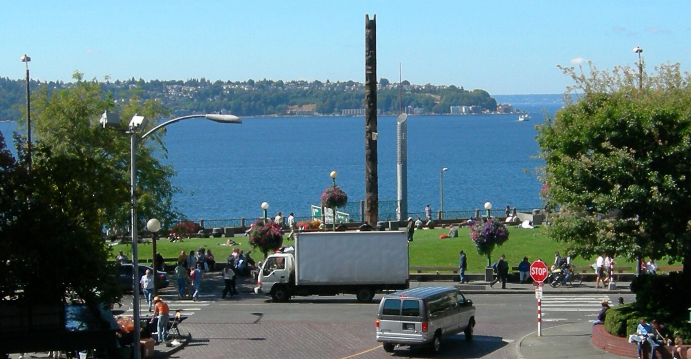 Victor Steinbrueck Park, Pike Place Market, Seattle, Washington